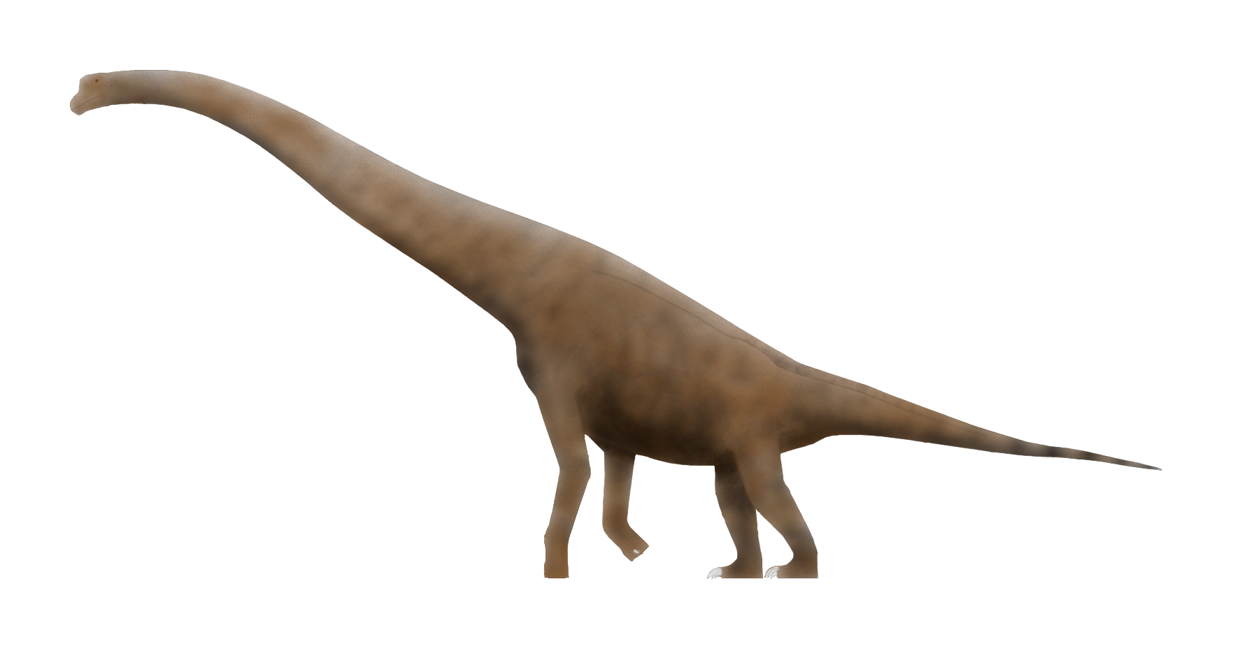 Life restoration of Cedarosaurus weiskopfae. Based on Hartman (2014)